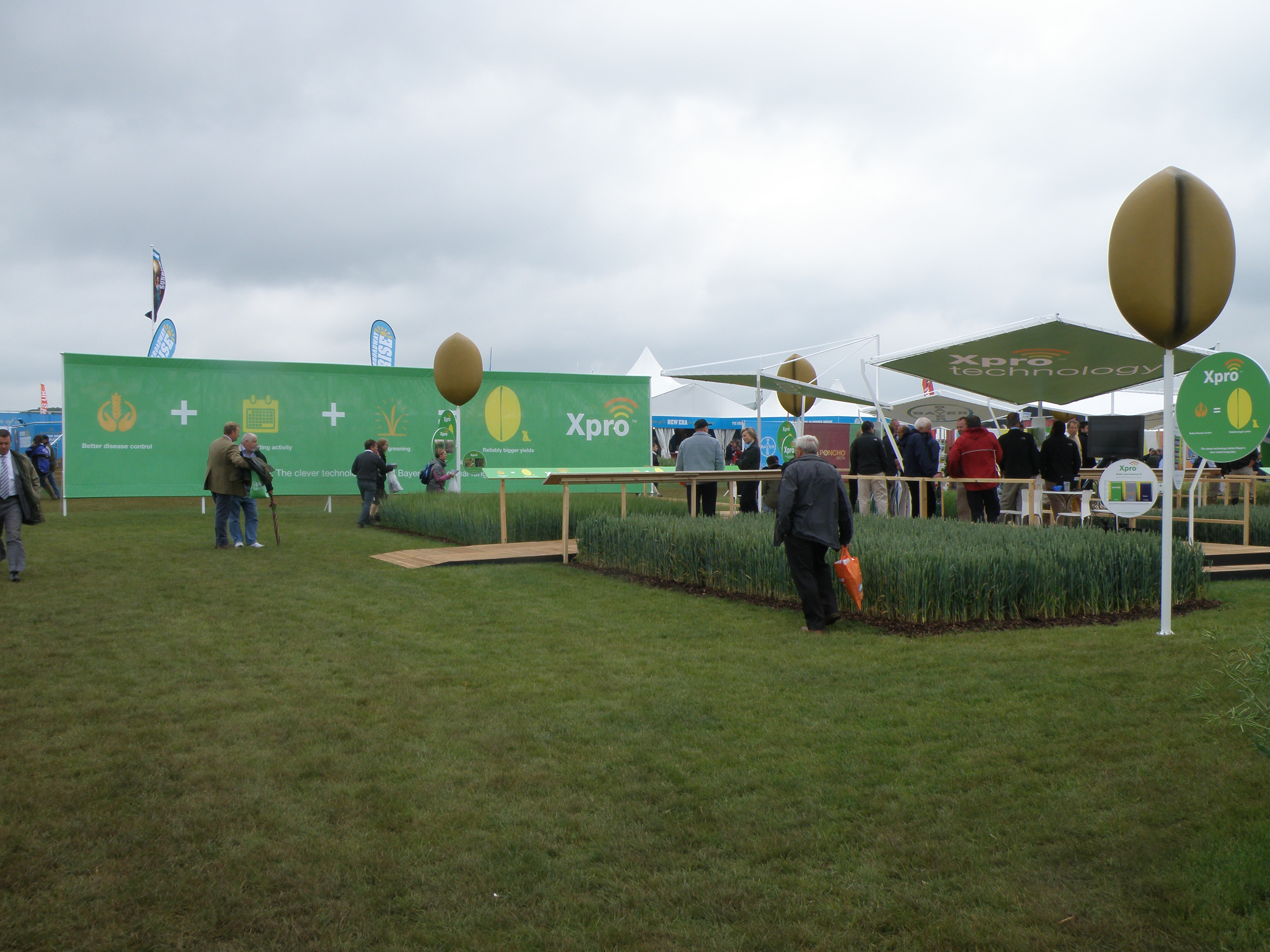 Bayer Crop Science display at the 2010 Cereals event, near to Chrishall Grange, England, Great Britain. Bayer making very visual statements about their new "Xpro" fungicide technology. Fungicides are critical to modern cereal growing, lush green wheat crops are at varying risks to the threat of many diseases such as brown and yellow rust, eyespot, mildew and septoria. To achieve good yields and as important clean whole grains of wheat then a programme of fungicide inputs must be used. Plant breeders try to select good disease resistant characteristics when breeding new varieties and these will last for a few years before new strains of disease evolve, so its an ongoing battle. The Cereals event is a trade showcase for arable farmers and associated industries. Displays of machinery, products, latest technologies and trial plots of cereals are all laid out on a temporary show ground that moves between different host farms around Cambridgeshire, Hertfordshire and next year Lincolnshire